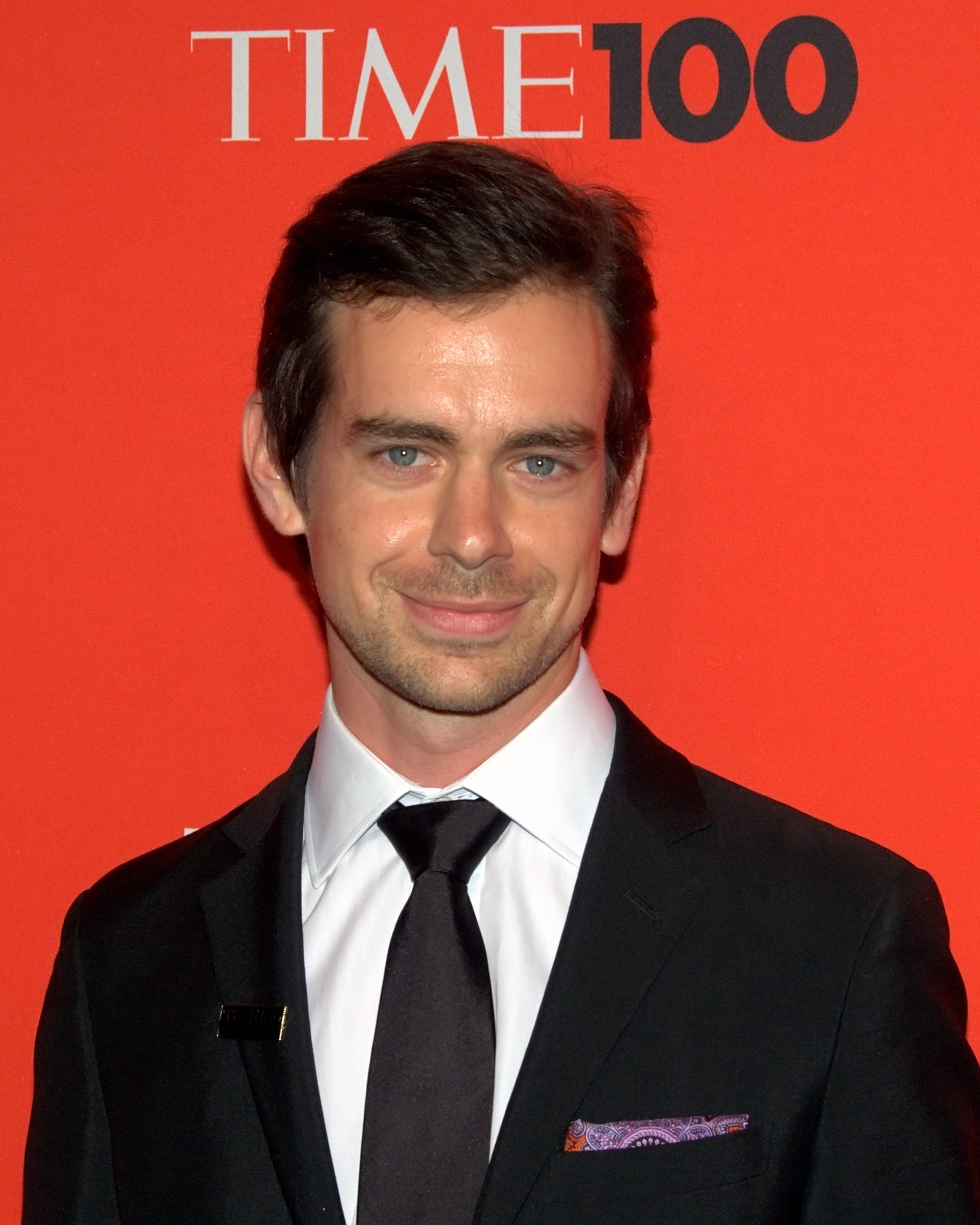 Jack Dorsey at the 2010 Time 100.